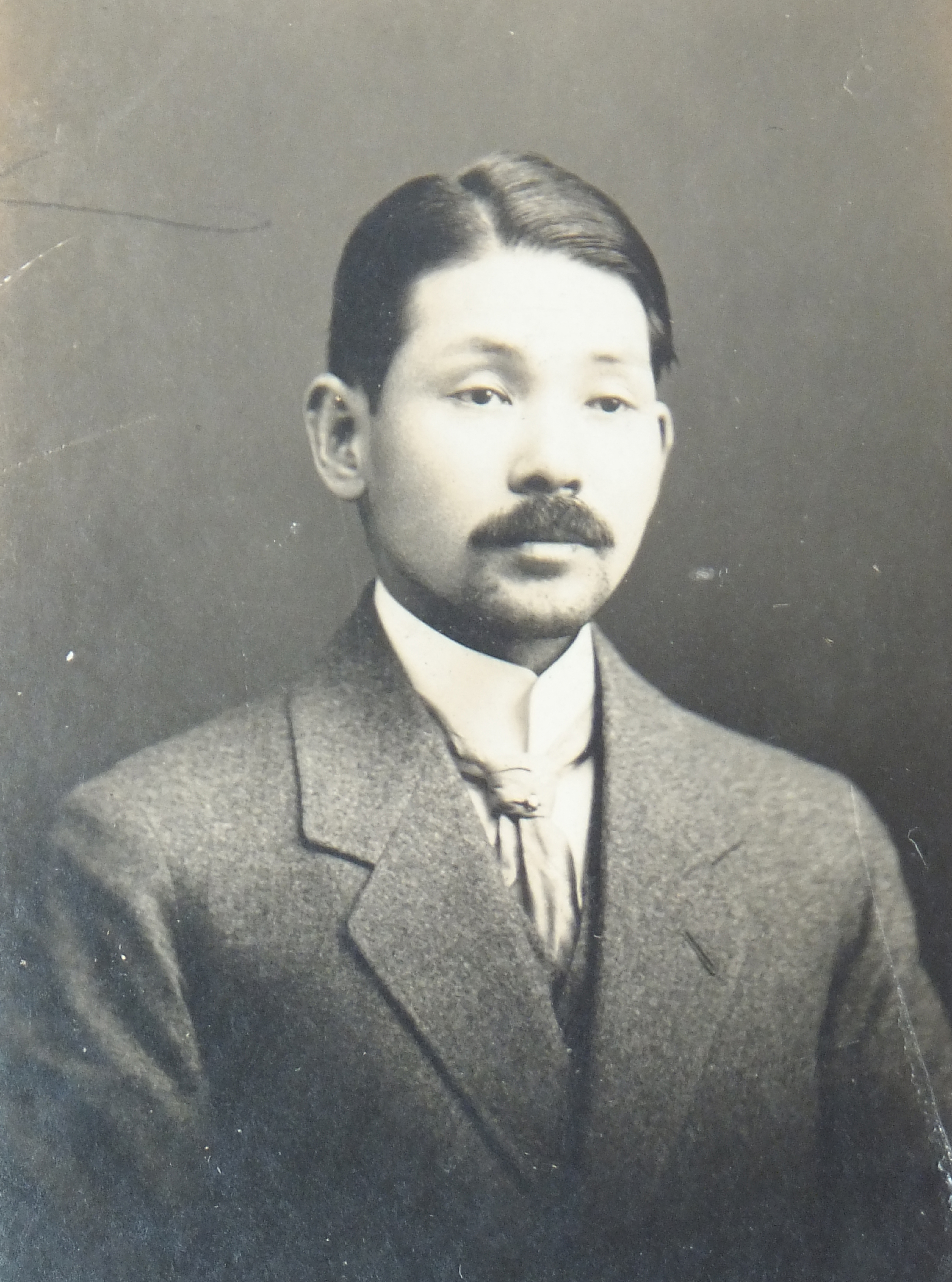 Hara Shimetarō (原 志免太郎, 1882-1991), a Japanese physician and pioneer in modern medical research on moxibustion. Photo, early 20th century.